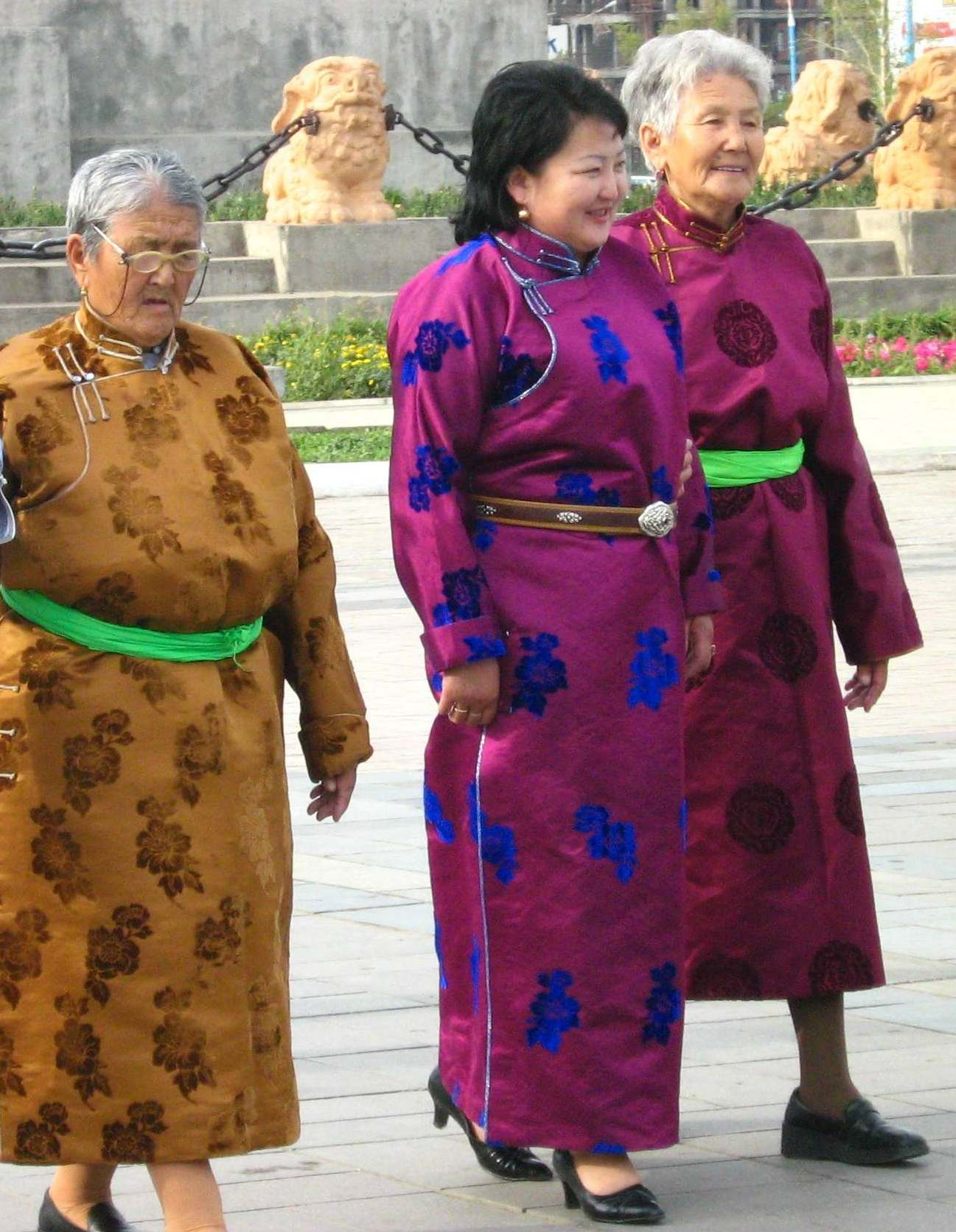 Mongolian women in a traditional dresses. Ulan Bator, Mongolia